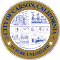 Official seal of the city of Carson, California, Datei:Seal carson ca.png Файл:Seal carson ca.png